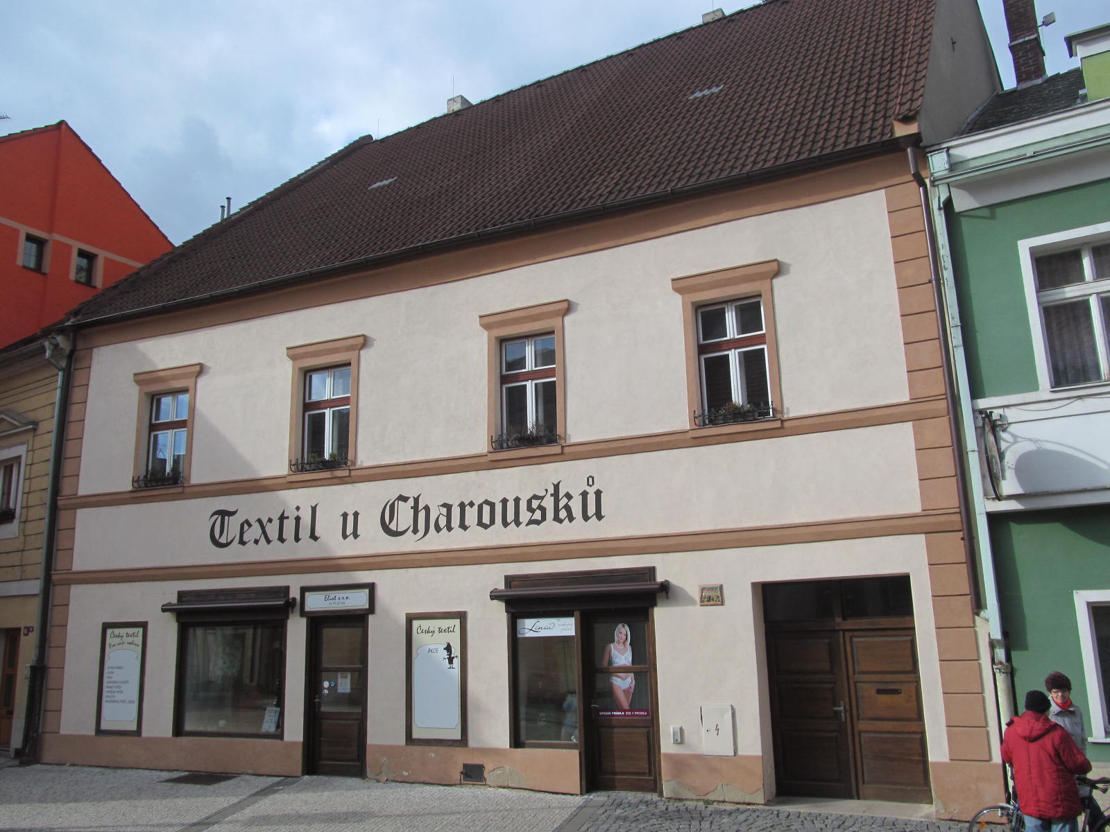 House Nr. 16 (Birthplace of writer Karel Konrád) in Louny